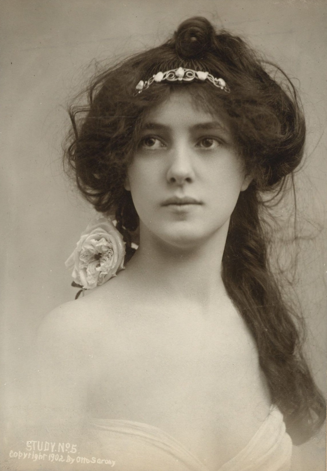 Photograph of American model and actress Evelyn Nesbit (1884–1967) by Otto Sarony. Labeled "Study No. 5', 1902. TCS 2, Harvard Theatre Collection, Houghton Library, Harvard University